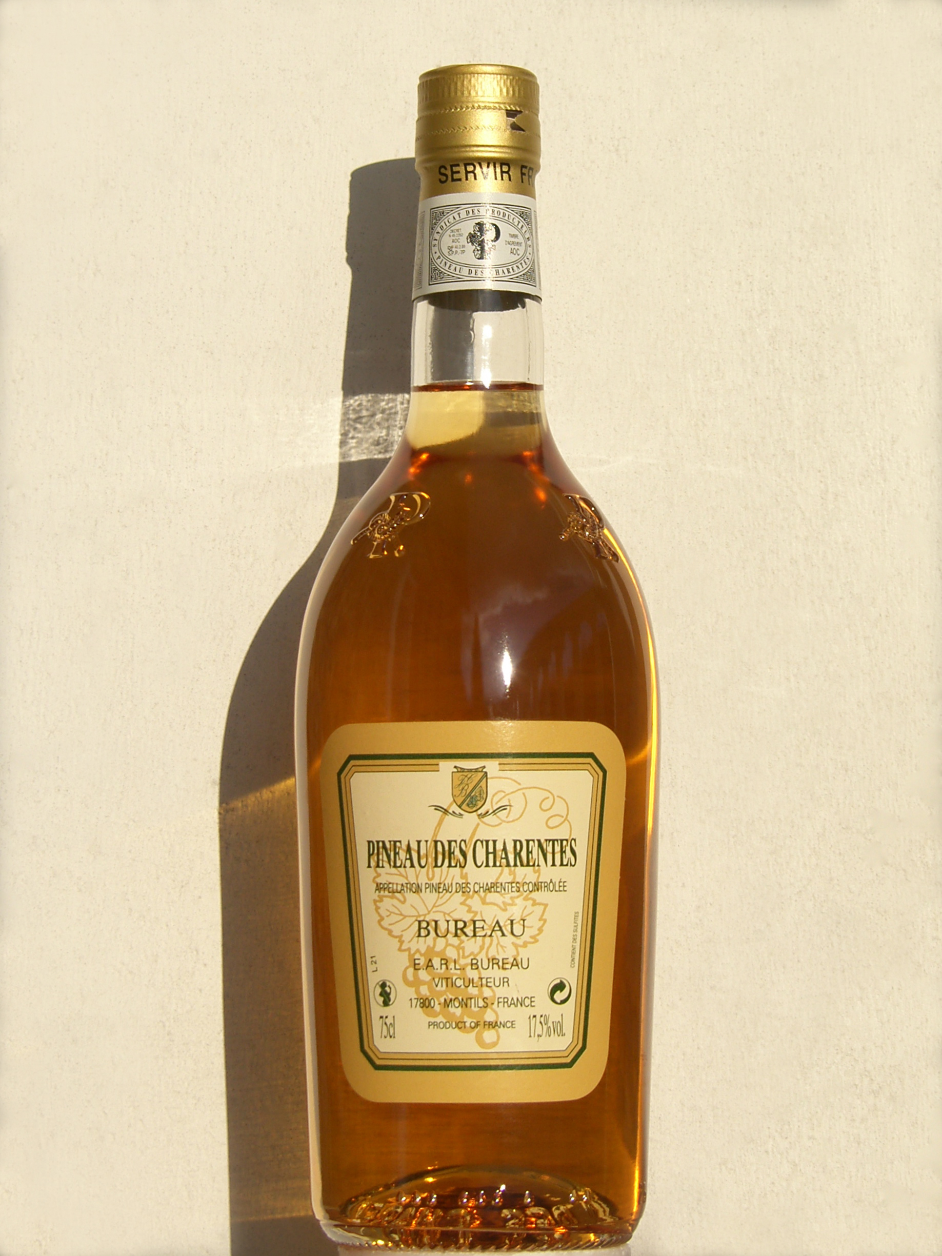 A bottle of Pineau des Charentes, a sweet Vin de liqueur from the Charentais, i.e., the same region as where Cognac is made.